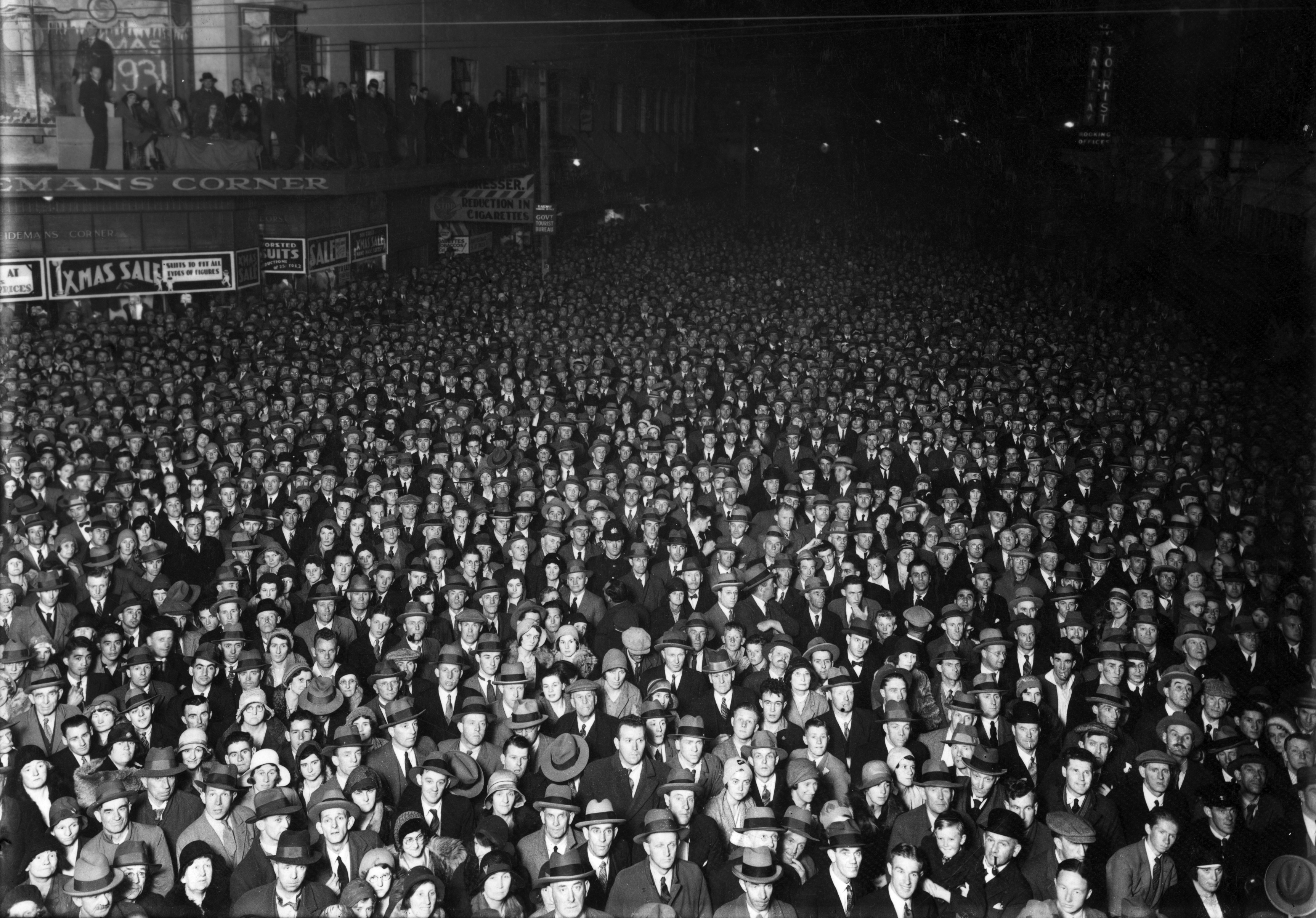 Photographer: William Hall Raine Election night crowd, Wellington, 1931 Reference number: 1/2-066547-F Original negative Photographic Archive, Alexander Turnbull Library Find out more about this image from the Alexander Turnbull Library.